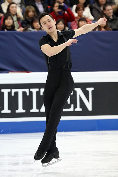 Patrick Chan during the 2017 World Championships